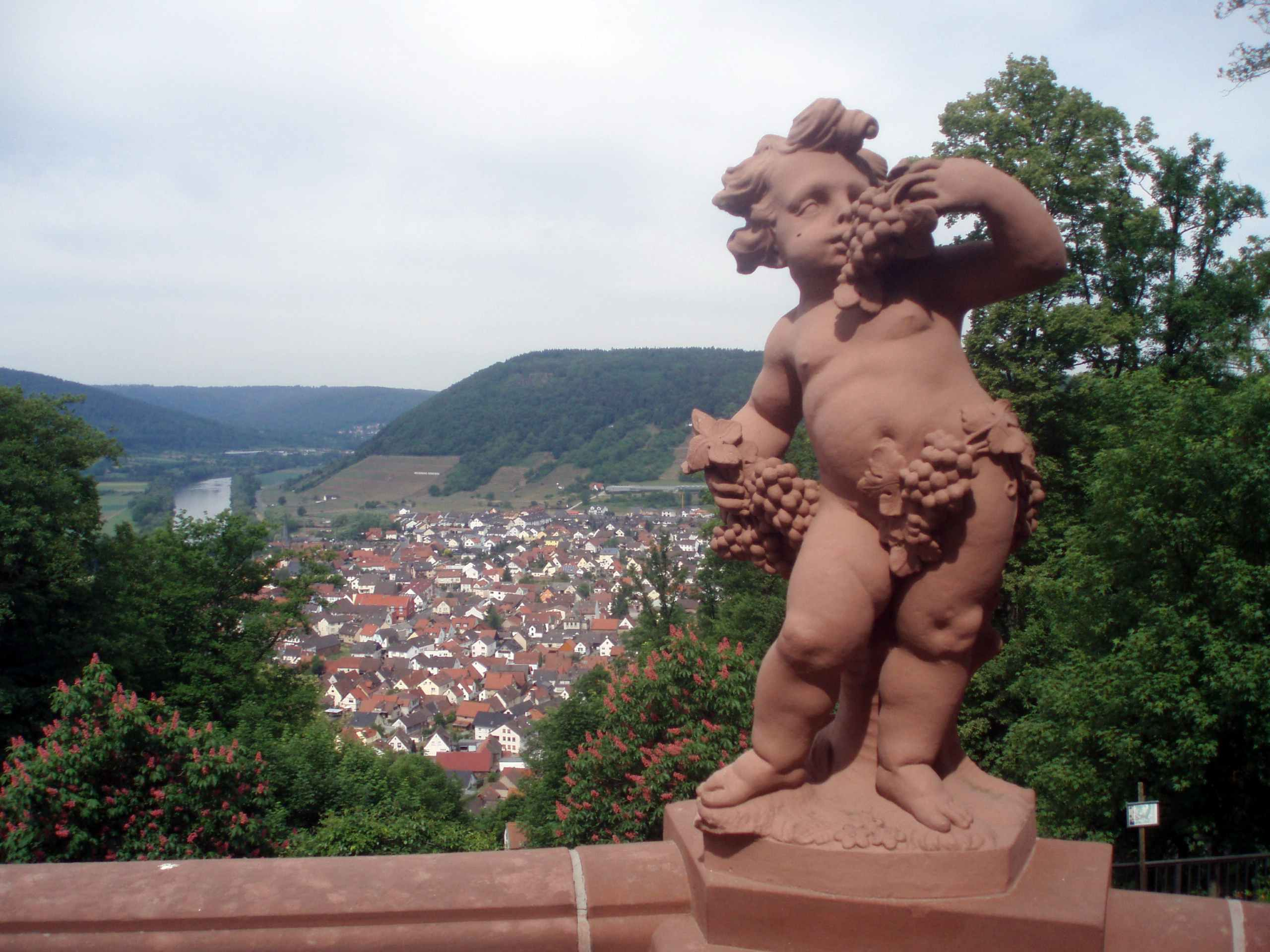 View of Großheubach, Germany